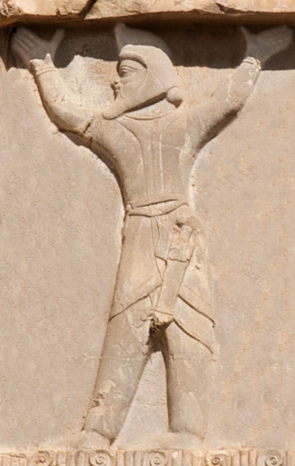 Xerxes detail Scythian